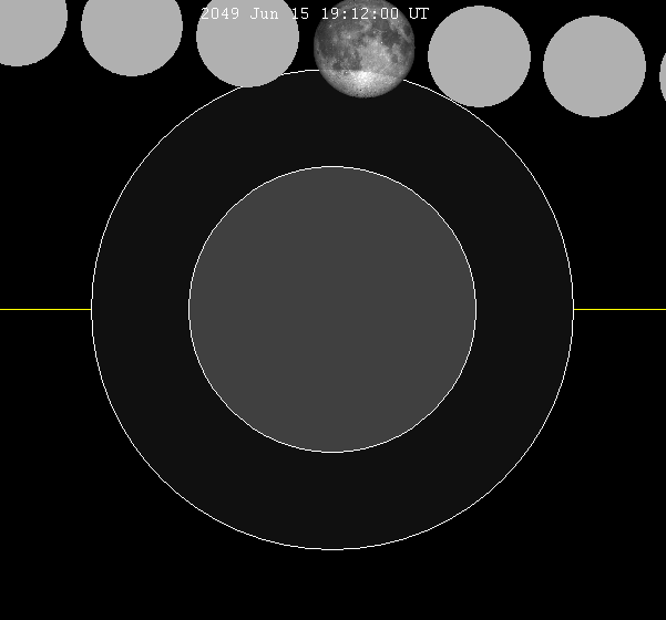 June 2049 lunar eclipse chart of moon's path through the earth's shadow. thumb